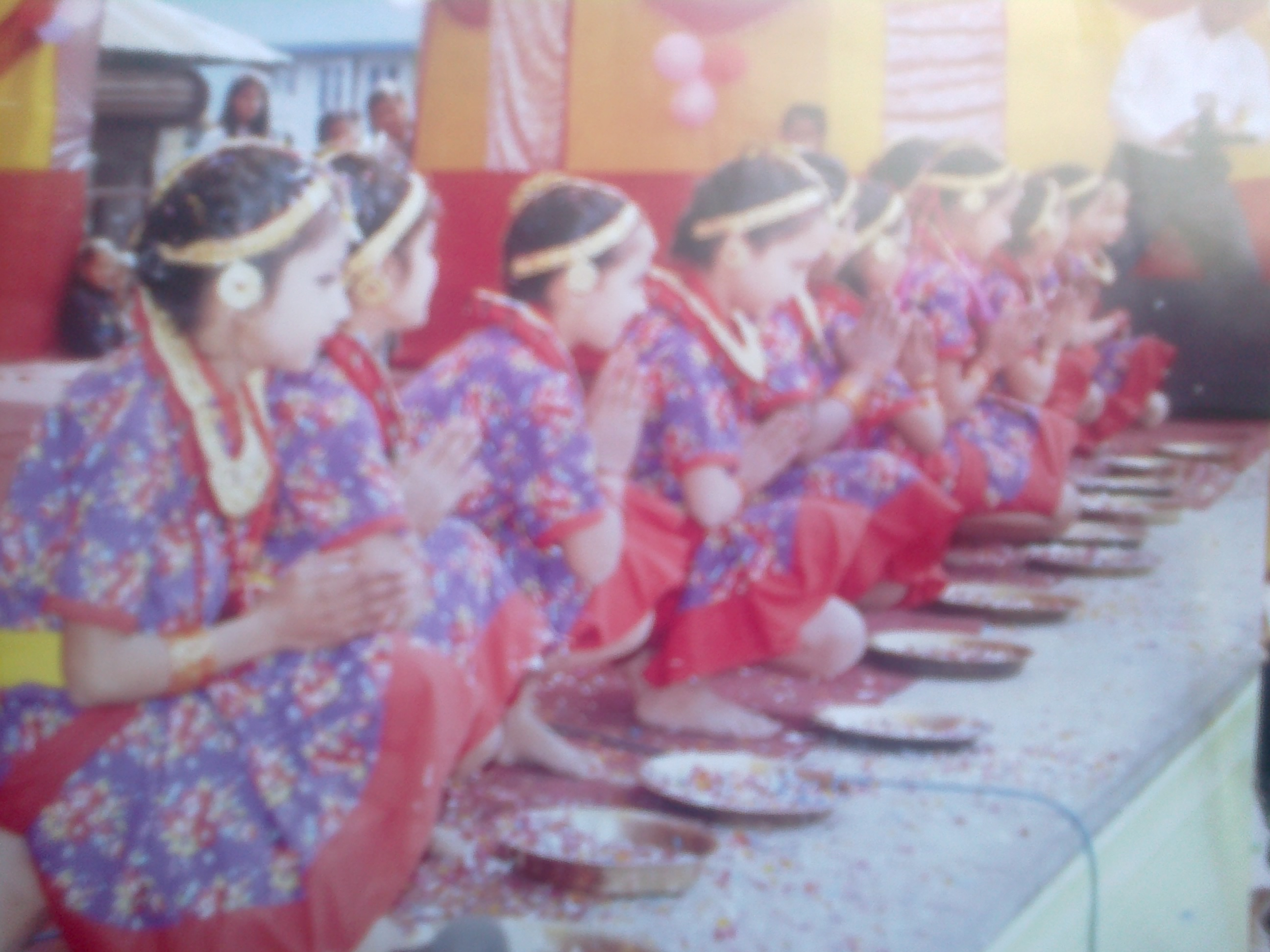 Photo showing students participating in annual function that tooks place every year.